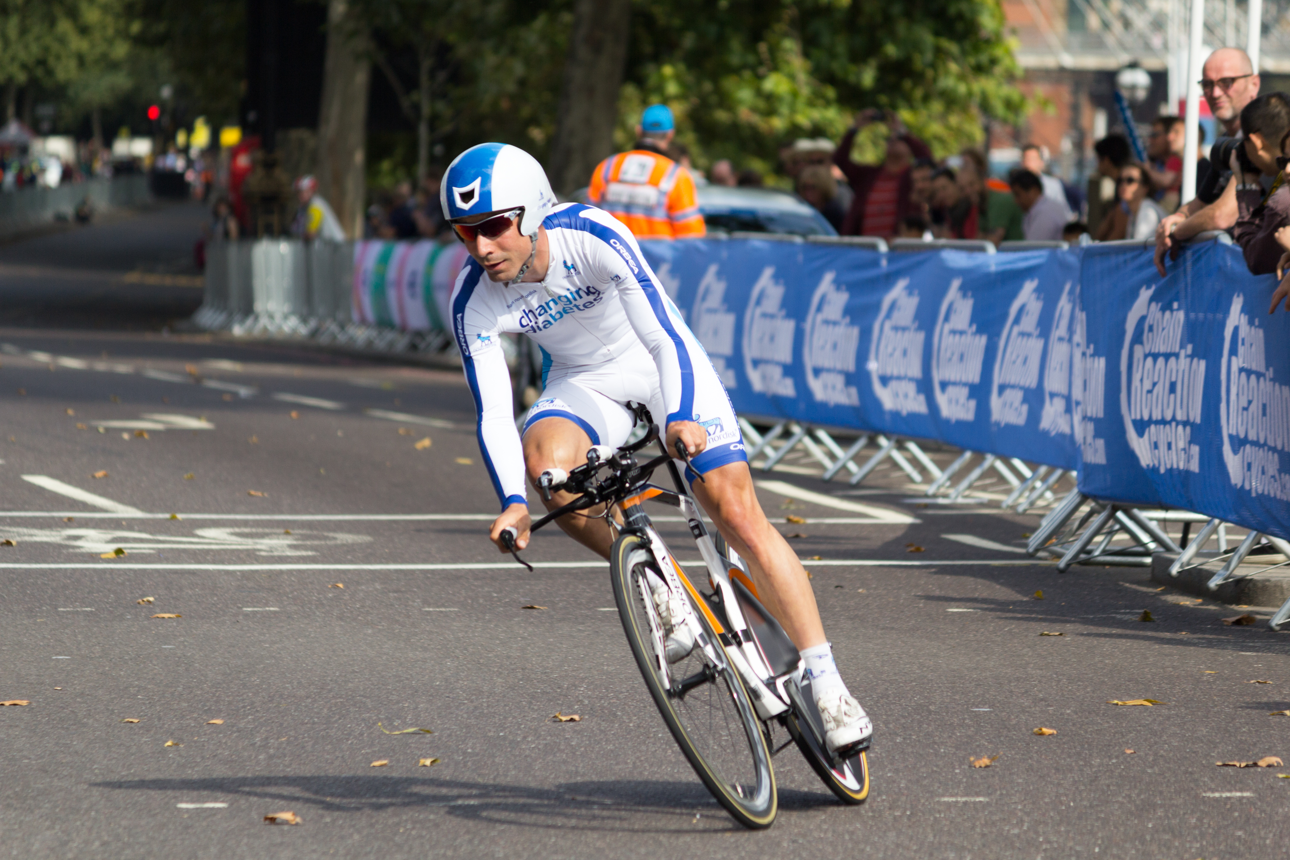 Tour of Britain 2014 stage 8a - London time trial